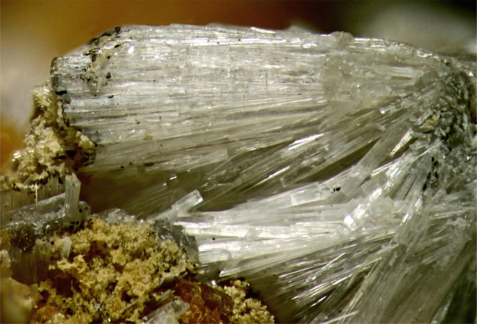 Adamsite-(Y) Locality: Poudrette quarry (Demix quarry; Uni-Mix quarry; Desourdy quarry; Carrière Mont Saint-Hilaire), Mont Saint-Hilaire, La Vallée-du-Richelieu RCM, Montérégie, Québec, Canada FOV 6.4 x 4.4 mm. This is a side view. This part could well have some shomiokite-(Y) mixed in